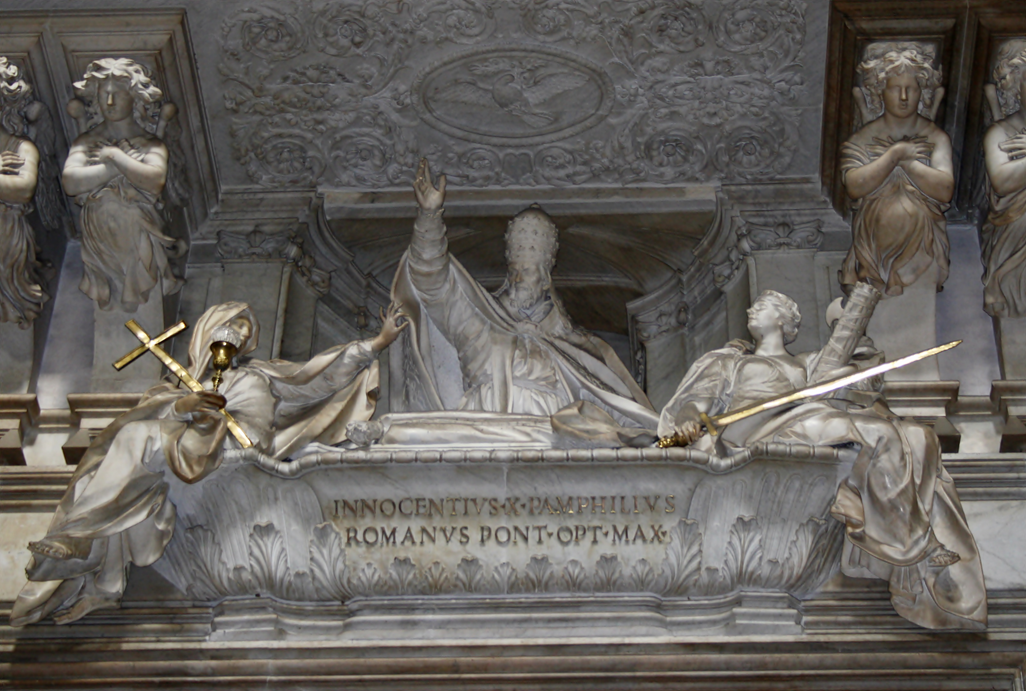 Tomb of Pope Innocent X, Church of Sant'Agnese in Agone, Rome